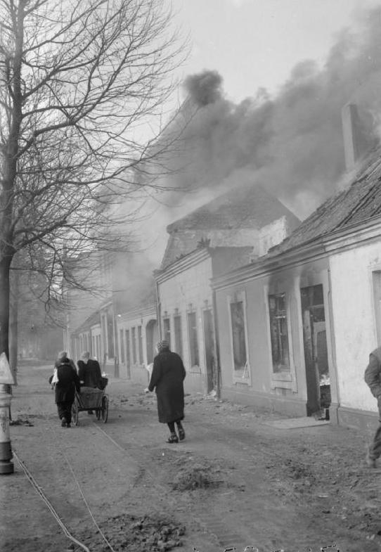 The British Army in North-west Europe 1944-45 German civilians pass burning buildings in Bocholt, 29 March 1945.